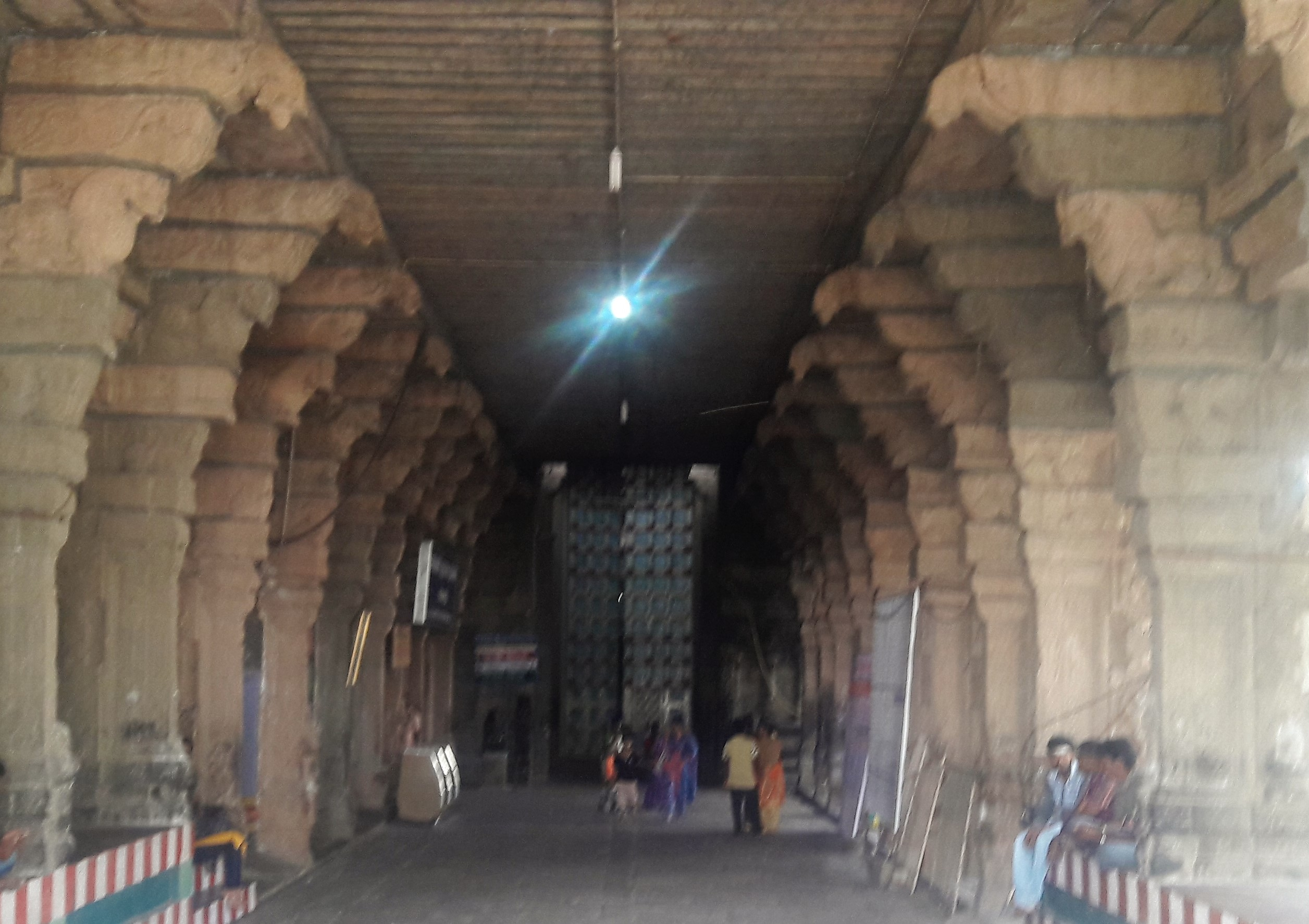 Madavar koil